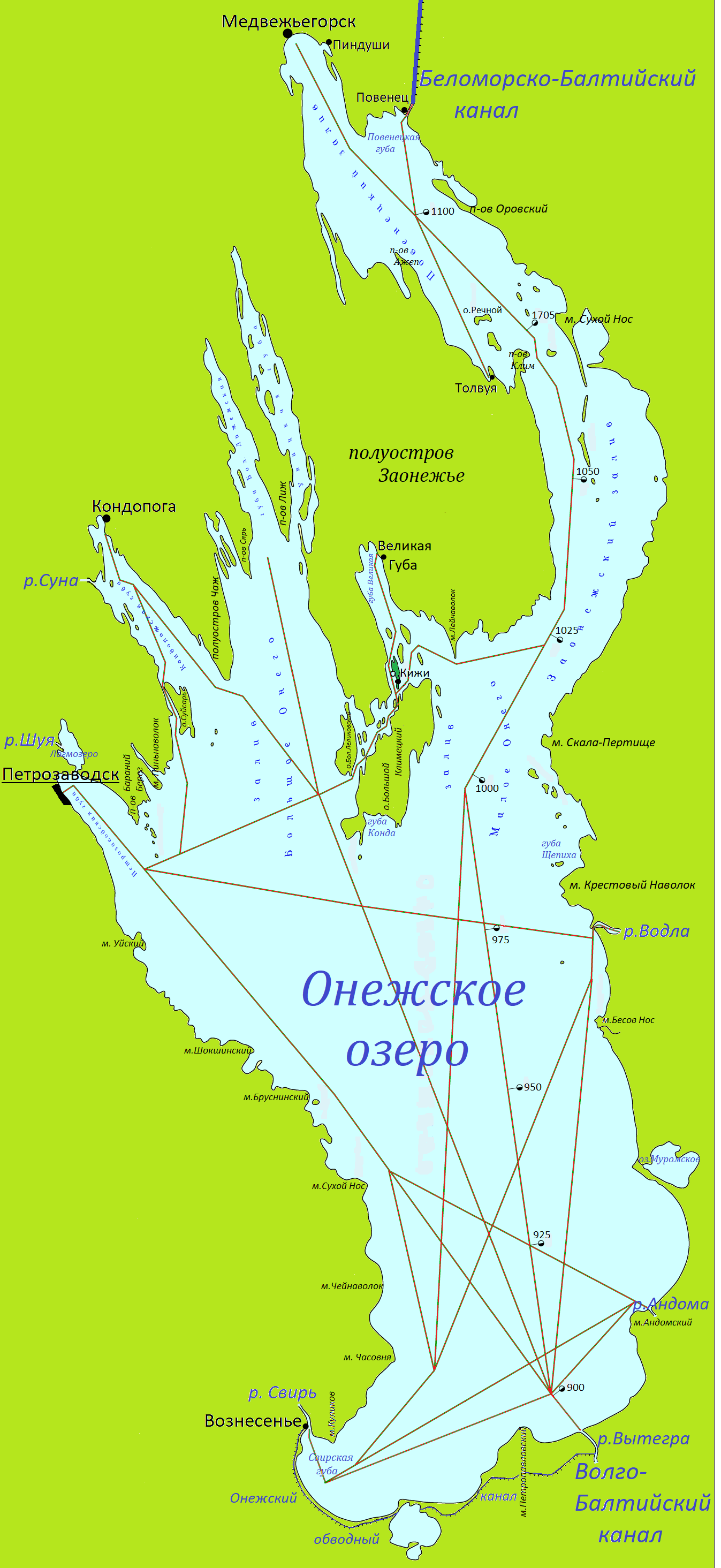 Map of Lake Onega